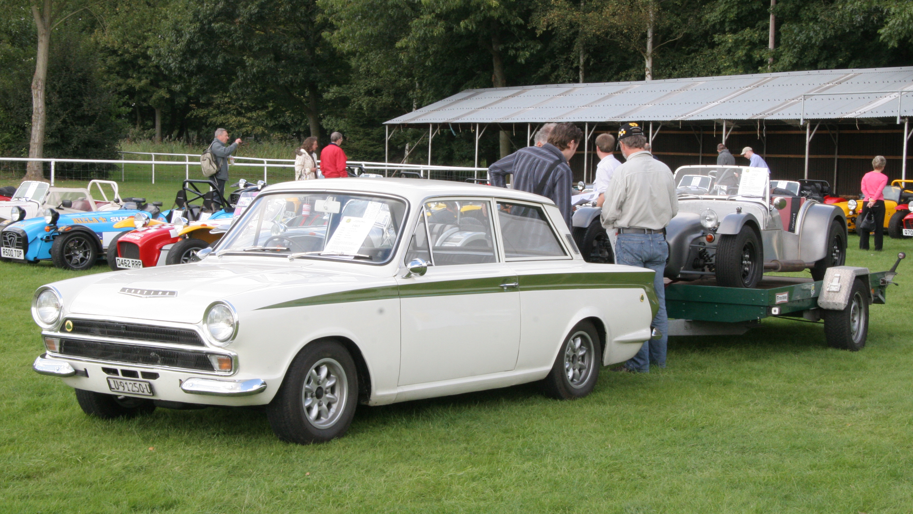 Lotus Cortina and a 7